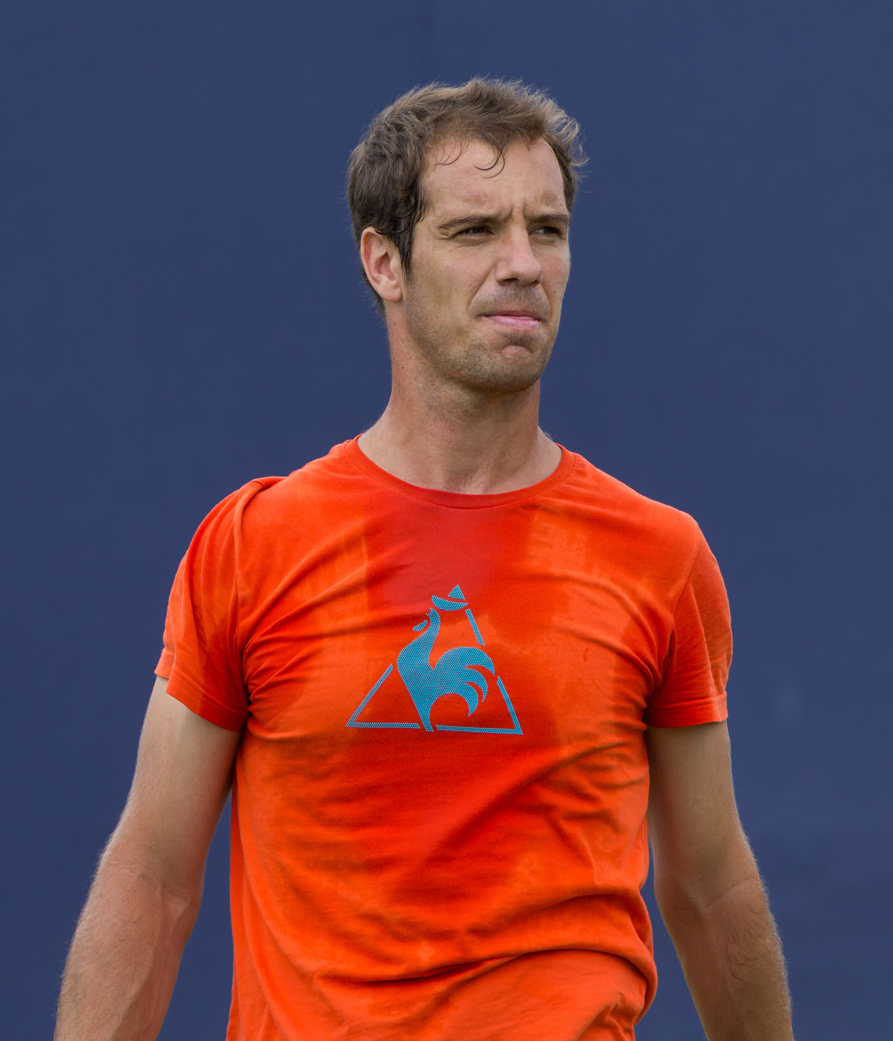 Richard Gasquet during practice at the Queens Club Aegon Championships in London, England.